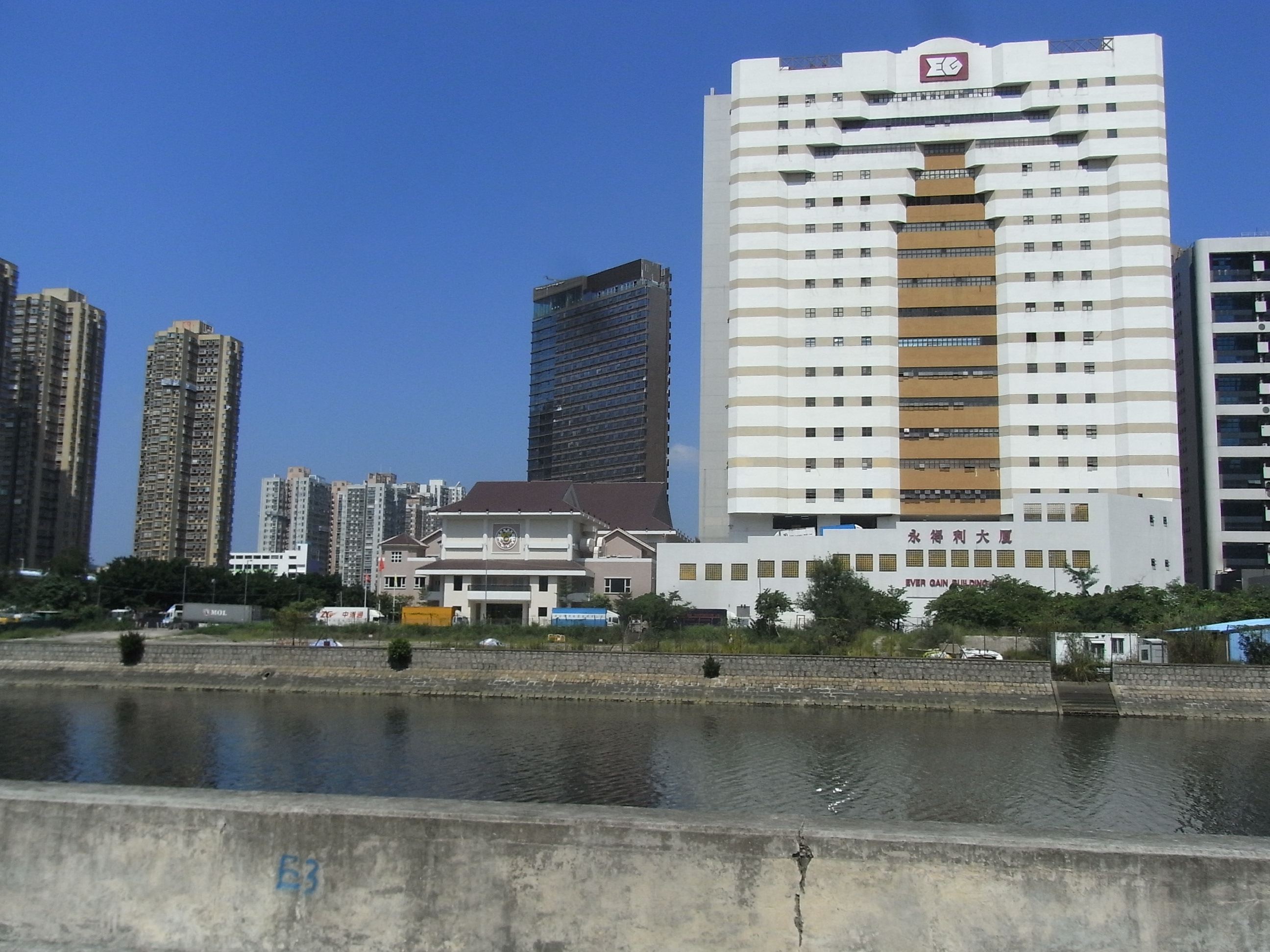 Views from Siu Lek Yuen Road